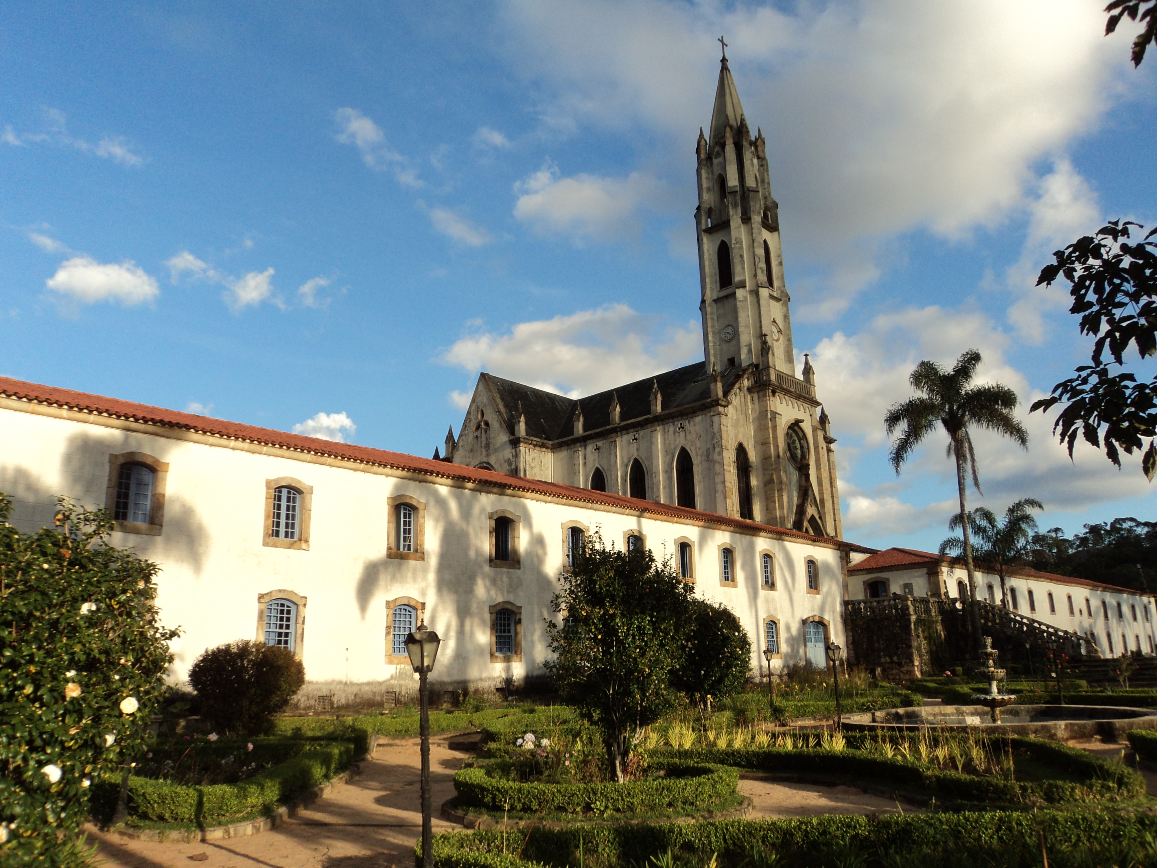 View of the "Santuário do Caraça", Minas Gerais, Brazil.